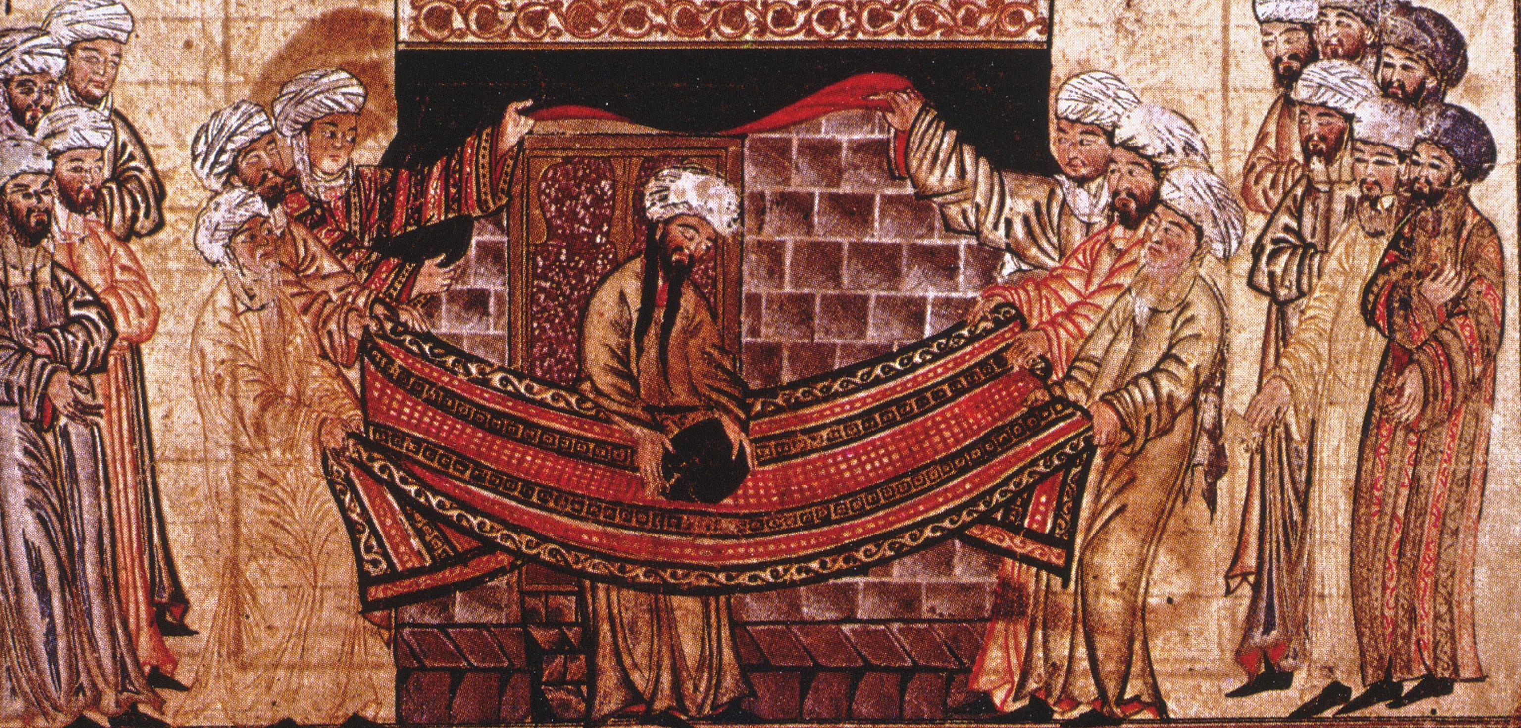 The Islamic prophet Muhammad solves a dispute over lifting the black stone into position at al-Kaaba. Note from pp. 100-101 of "The illustrations to the World history of Rashid al-Din / David Talbot Rice ; edited by Basil Gray. Edinburgh : Edinburgh University Press, c1976." - In the center, Prophet Muhammad, with two long hair plaits, places the stone on a carpet held at the four corners by representatives of the four tribes, so that all have the honor of lifting it. The carpet is a kelim from Central Asia. Behind, two other men lift the black curtain which conceals the doors of the sanctuary. This work may be assigned to the Master of the Scenes from the Life of the Prophet.